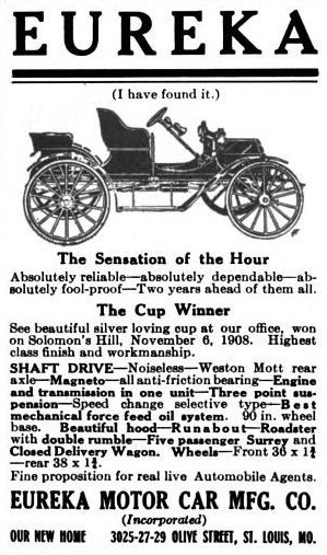 The image is a magazine advertisement for the 1909 Eureka automobile.